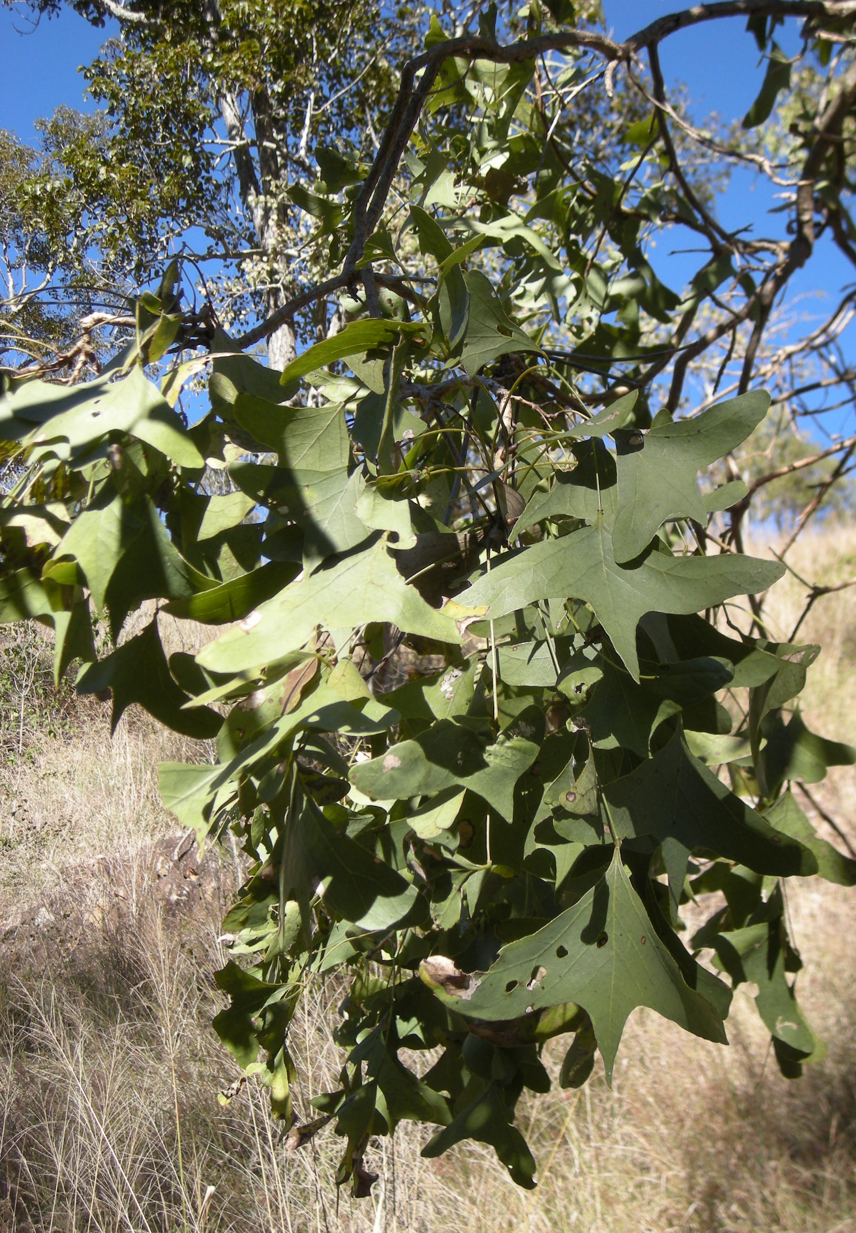 Erythrina vespertilio foliage, Mount Archer National Park, Rockhampton, Queensland.